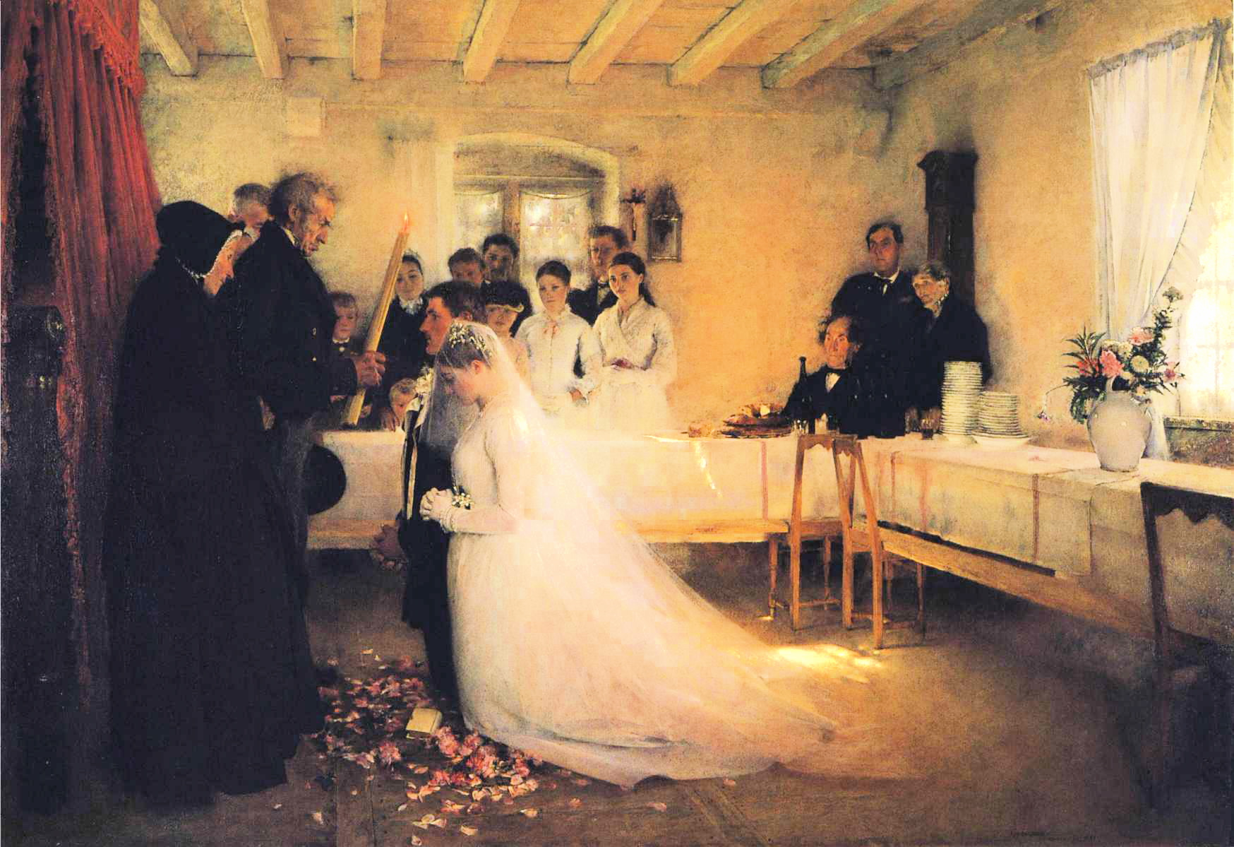 Blessing of the Young Couple Before Marriage